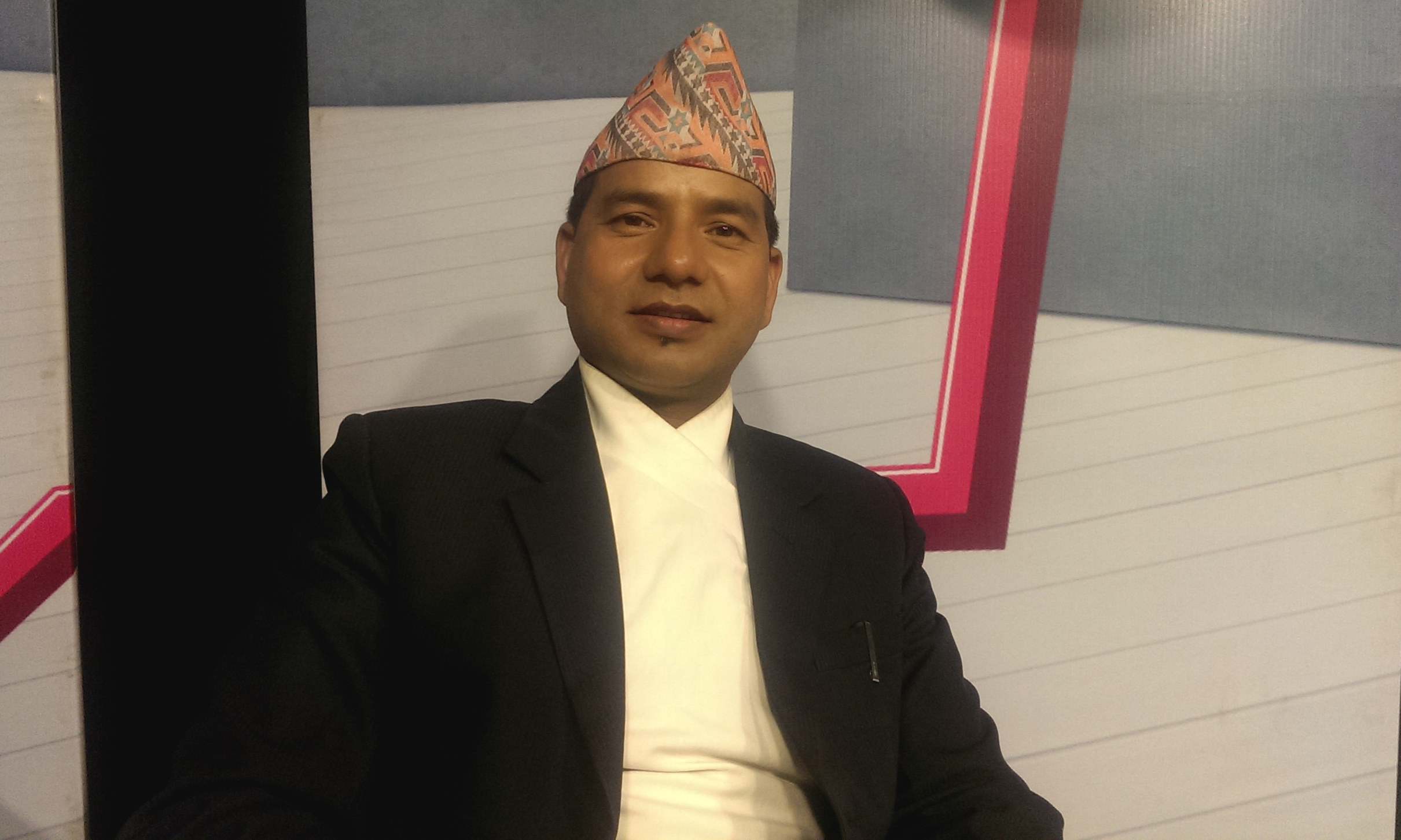 शंकर सिंह विष्ट